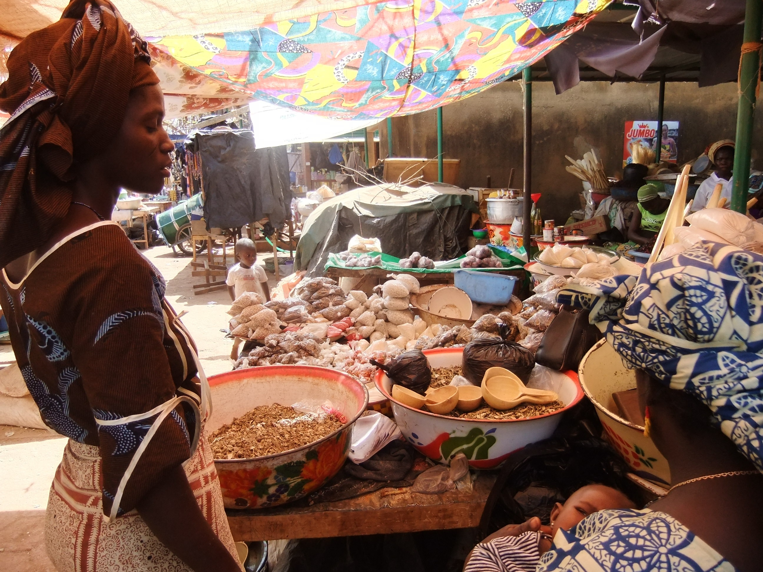 Fada Ngourma, Burkina Faso This is an image of "African people at work" from Burkina Faso